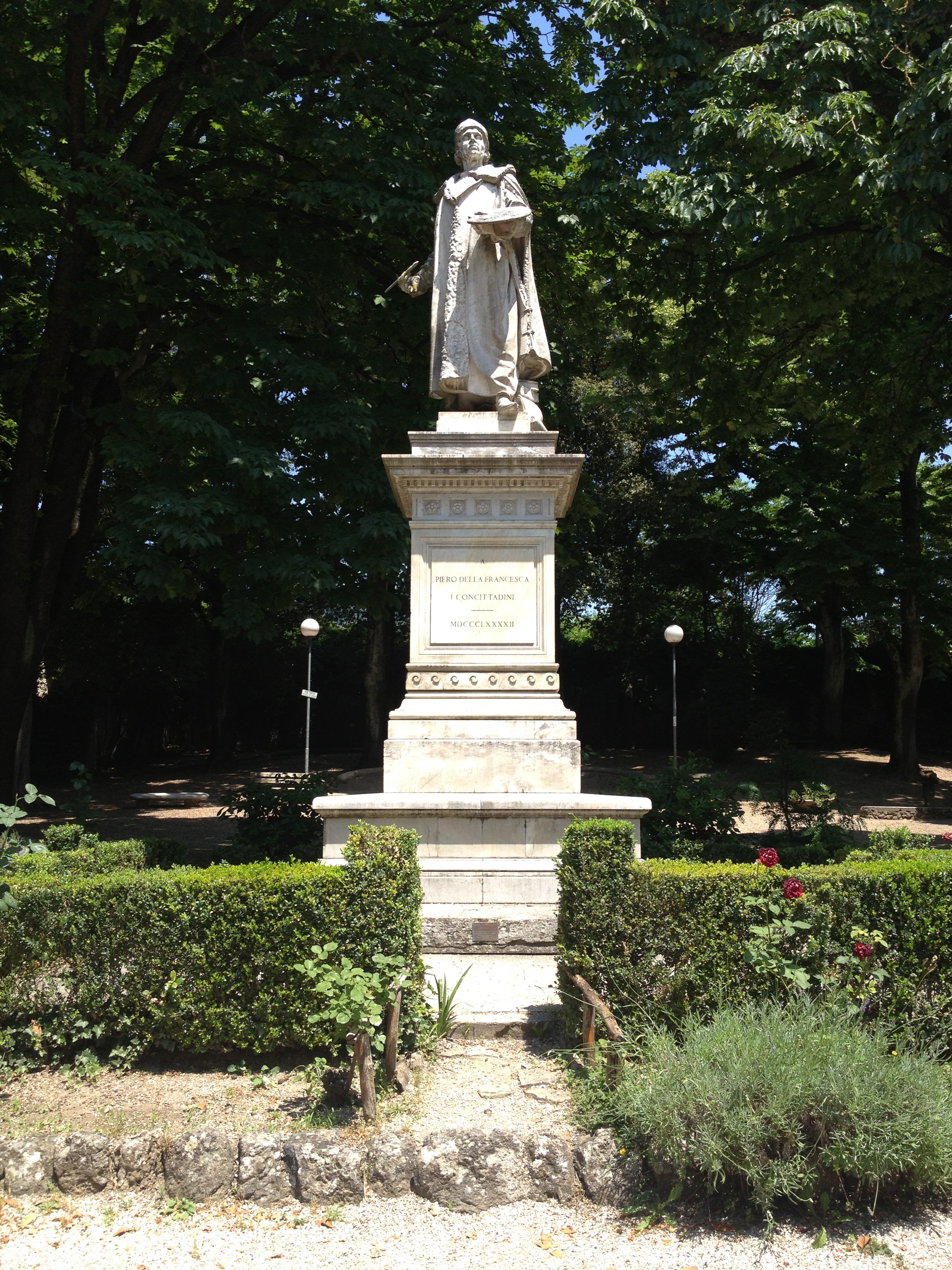 Piero della Francesca